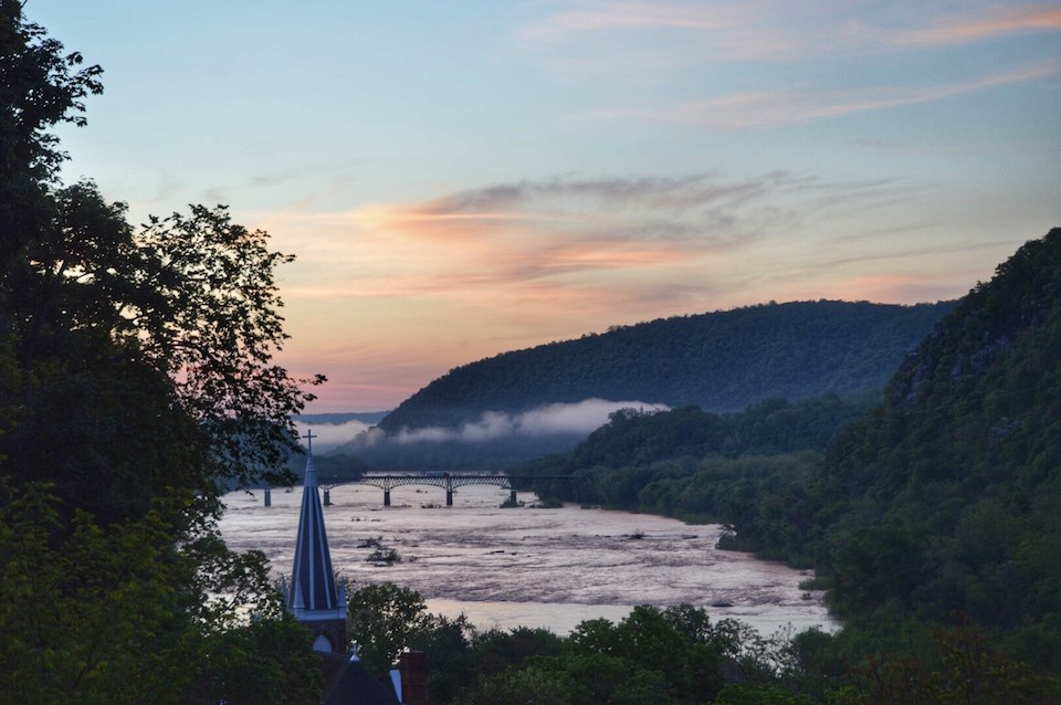 A sunrise view of the Potomac Water Gap as seen from Jefferson’s Rock.